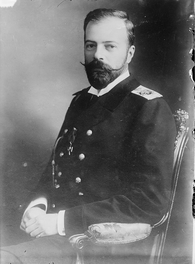 Alexandr Mikhailovich of Russia In Library of Congress this file is marked as "Michael Alexandrovitch", but it is not Michael.